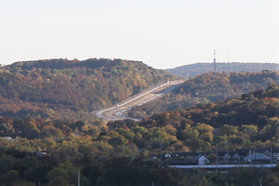 I-49 viewed from Union Station on the campus of the University of Arkansas in Fayetteville